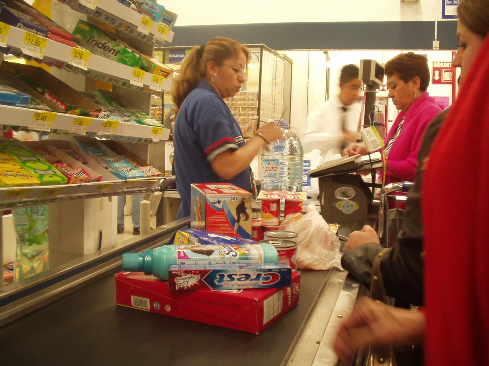 Cashier at Wal Mart - Plateros store located in Mexico City.